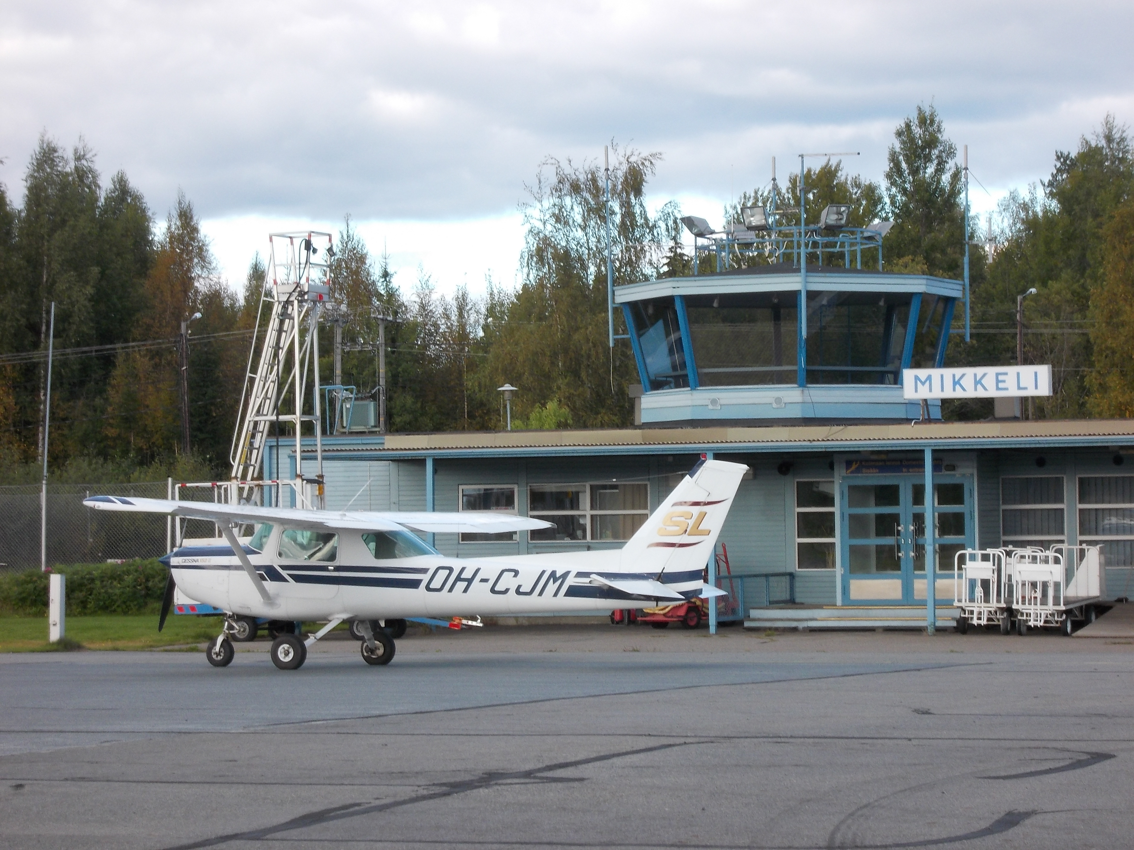 A Cessna 152 aircraft (OH-CJM) of Salpauslento Oy in front of the terminal and the control tower at Mikkeli Airport (MIK/EFMI) in Mikkeli, Finland.